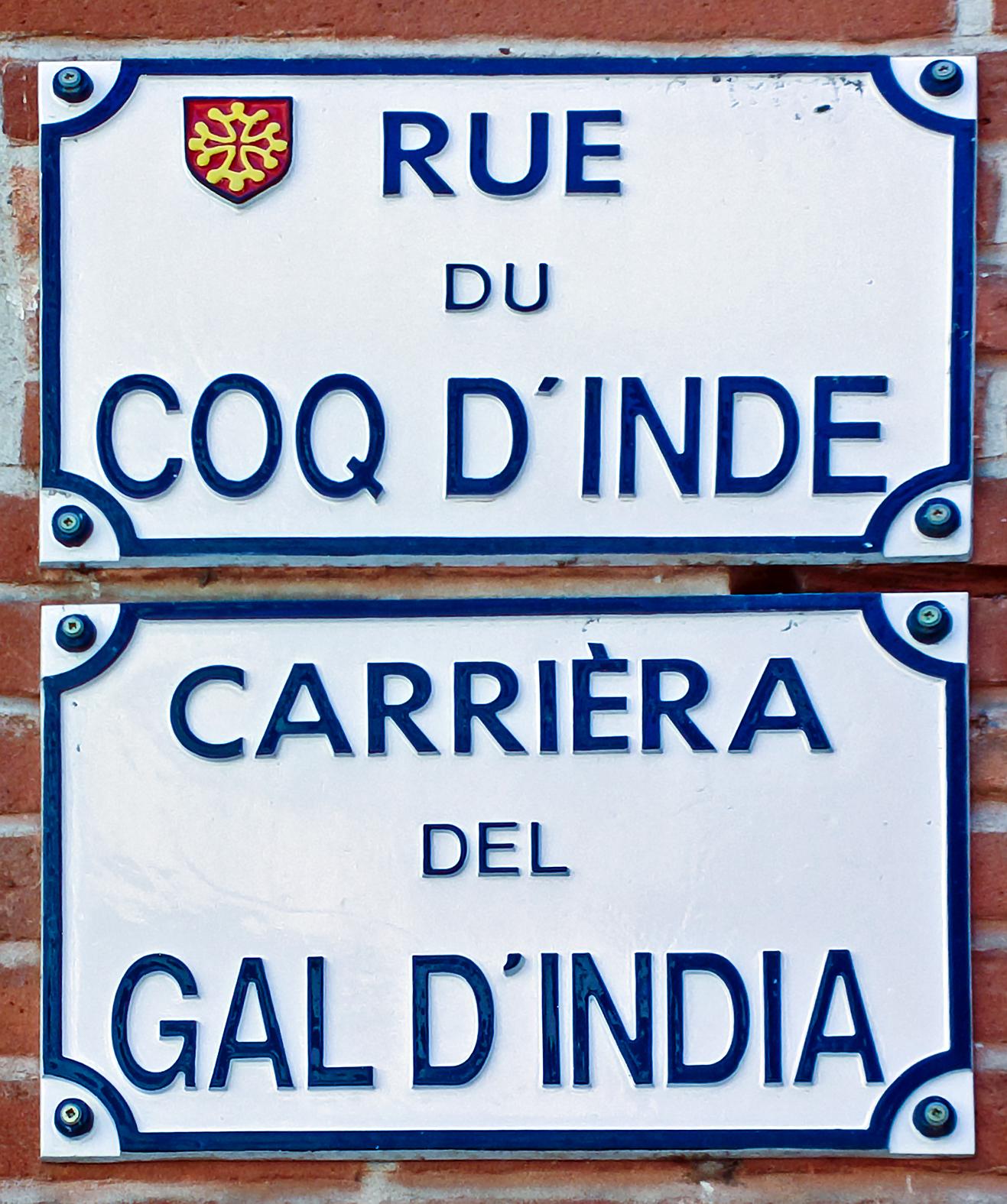 Rue du Coq d'Inde, in Toulouse - Street name sign. They have the particularity of being: in French and Occitan.